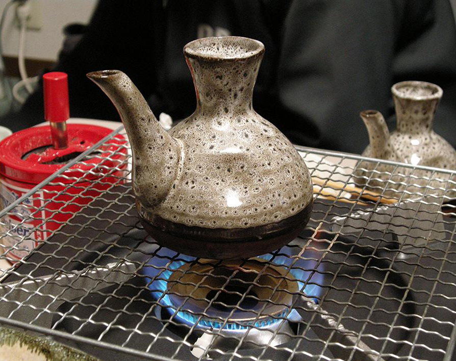 Heating sake.